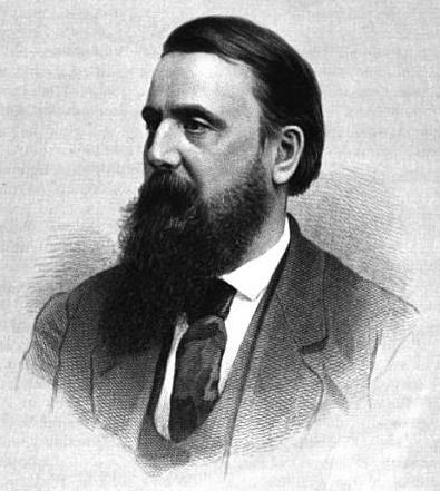 Portrait of publisher Charles A. B. Shepard (of Lee & Shepard, Boston)